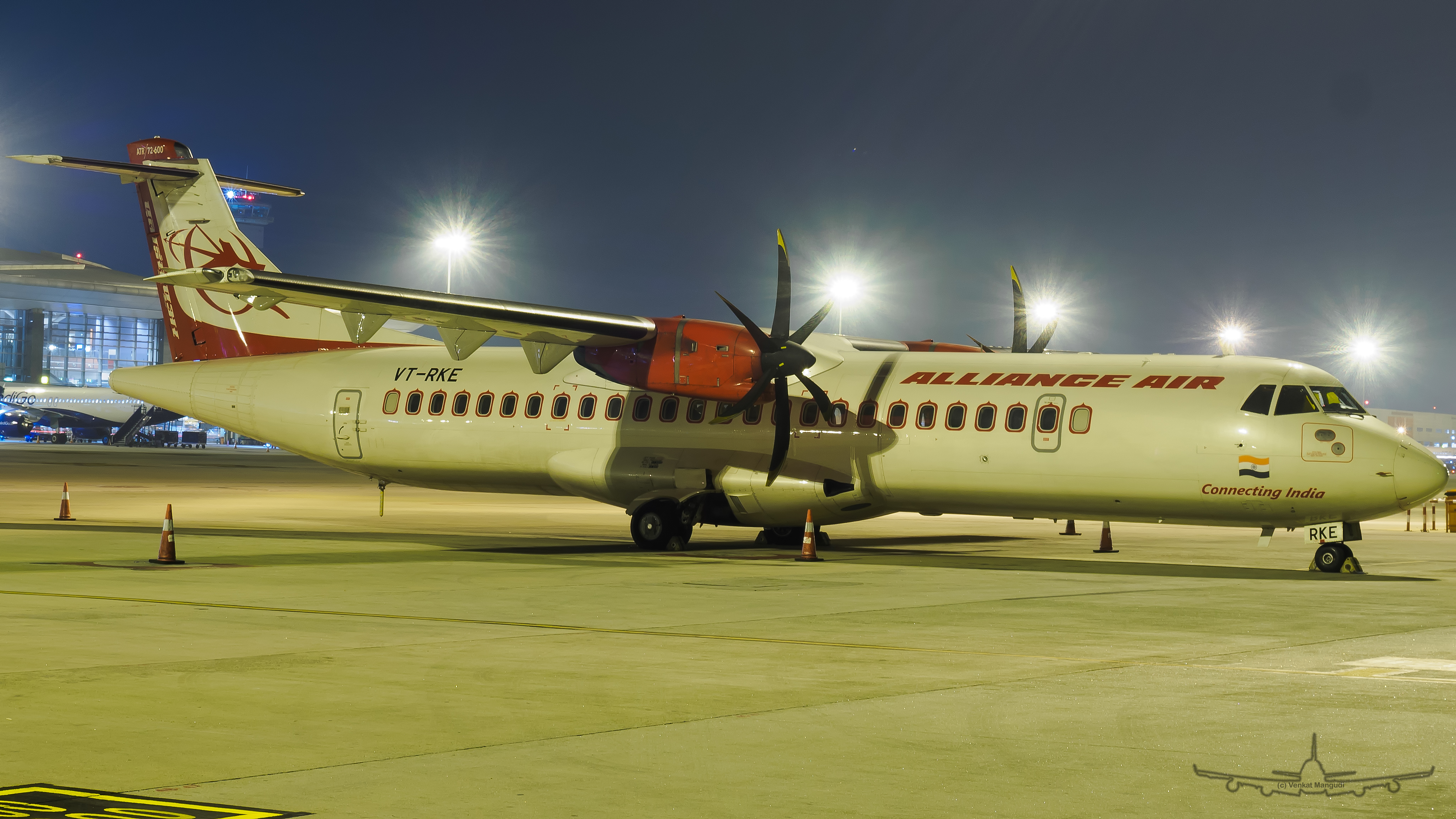 Alliance Air ATR 72-600